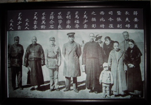 Chiang Kaishek with Muslim General Ma Fushou and his family.